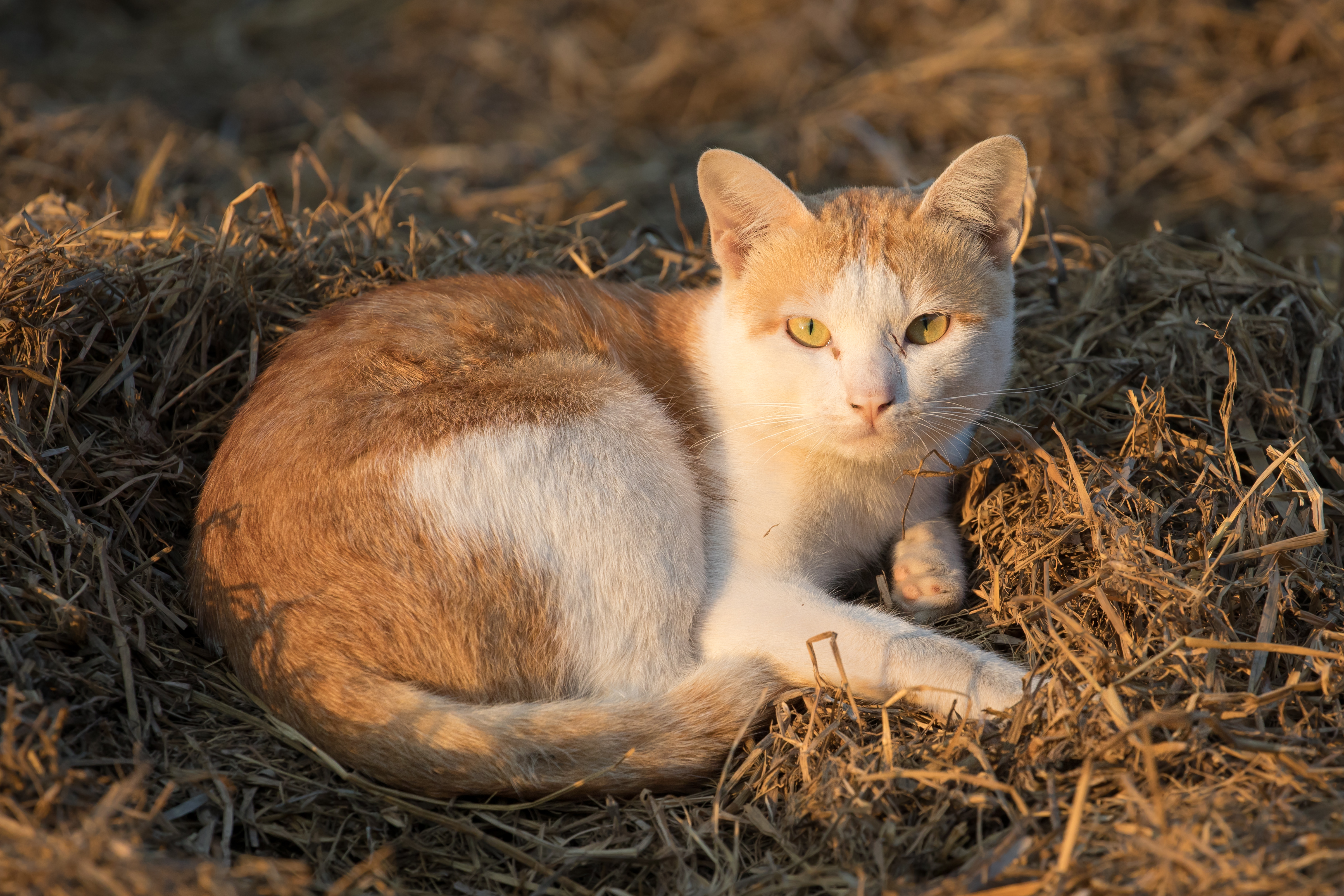 Bicolor (cinnamon and white) Felis silvestris catus (domestic cat), with a scratch near the left eye, lying in the sun on rice straw, in Laos